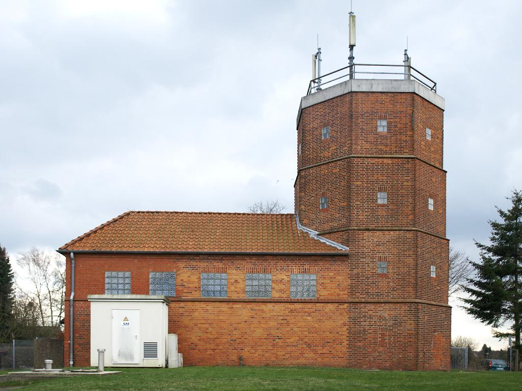 Ratzeburg (Schleswig-Holstein, Germany), water tower St. Georgsberg, photo 2010